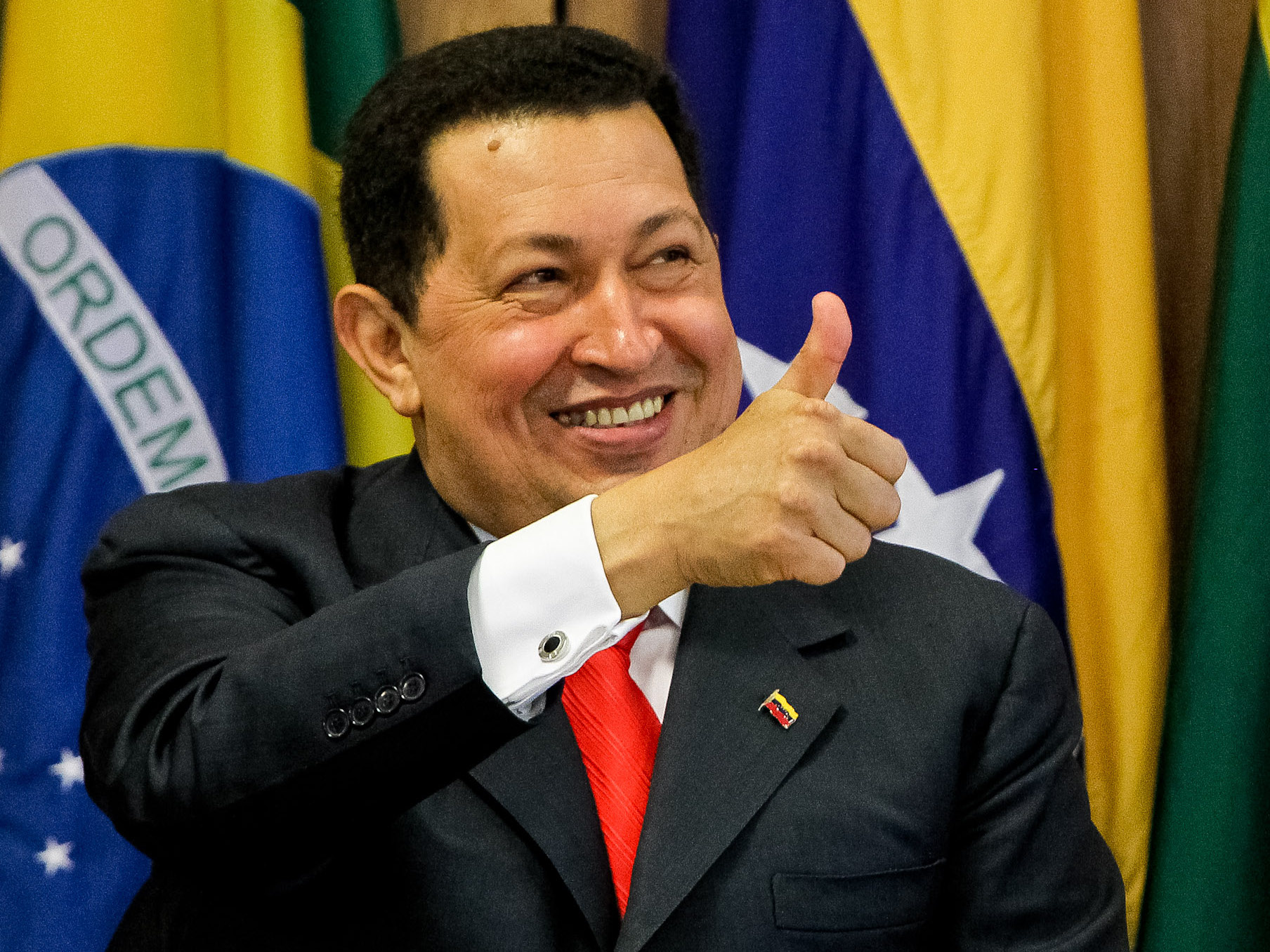 Brasília-DF, 06/06/2011. Presidenta Dilma Rousseff e o presidente da Venezuela, Hugo Chávez durante coletiva a imprensa após reunião. Foto: Roberto Stuckert Filho/PR.